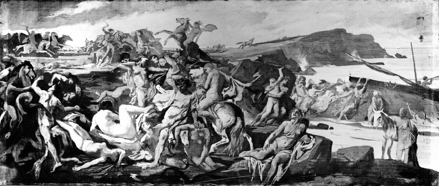 Amazonomachia (first version), lost (allegedly destroyed) in 1945.